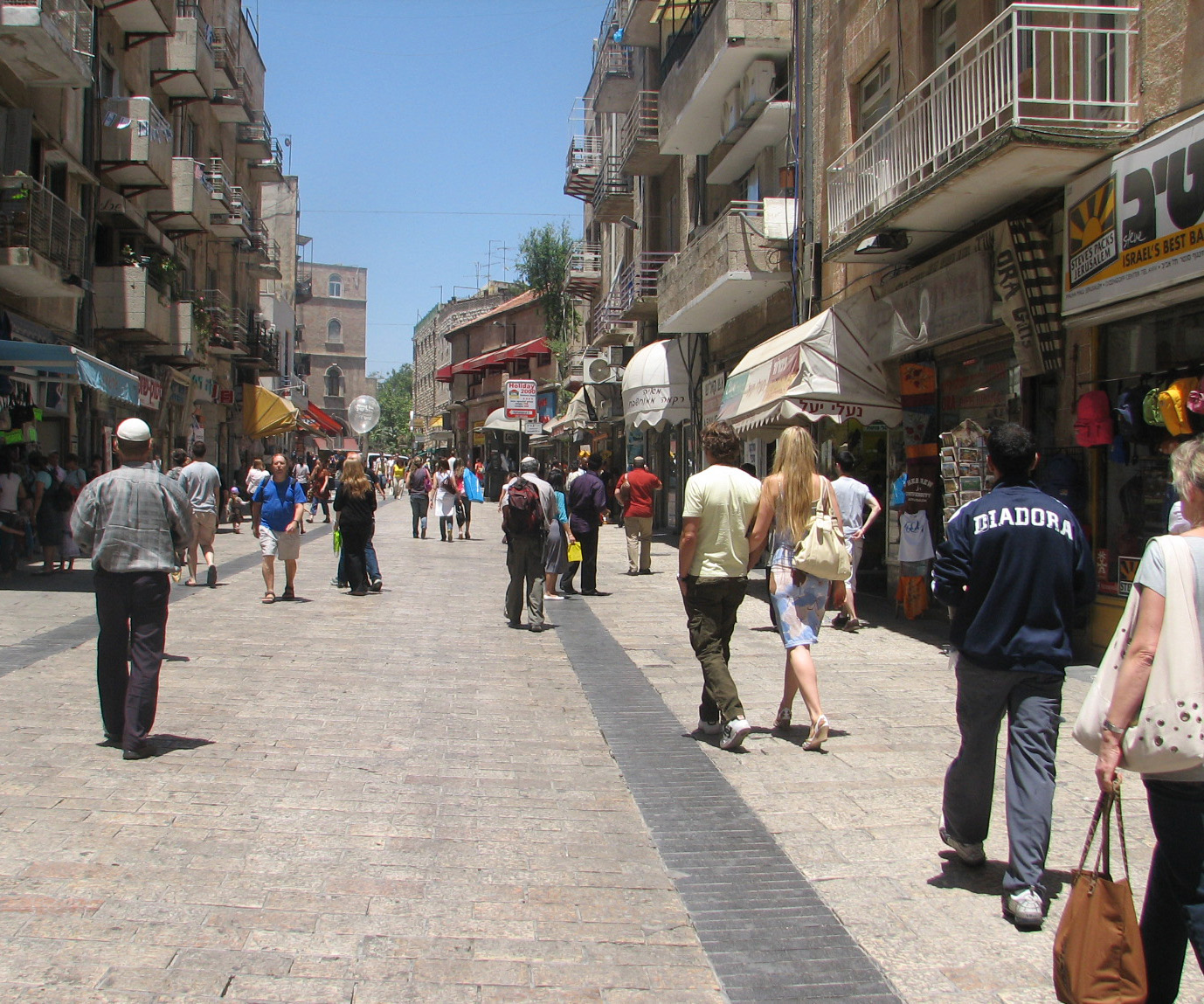 Urban scene of West Jerusalem's "Triangle" district, Ben Hillel Street, off Ben-Yehuda.